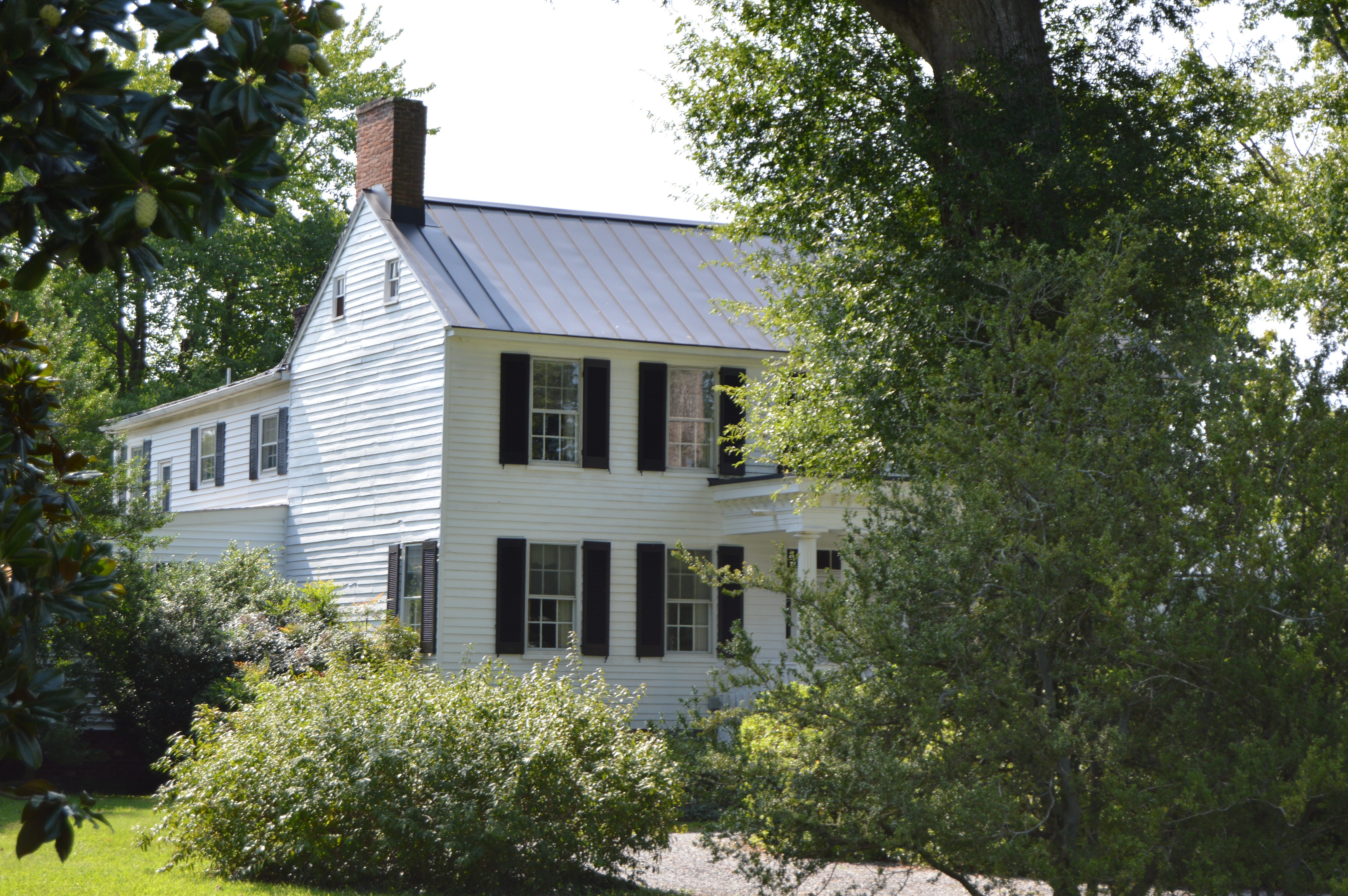 Front and southern side of Oakley, located on Back Street in Heathsville, Virginia, United States. Built in 1820, it is listed on the National Register of Historic Places.